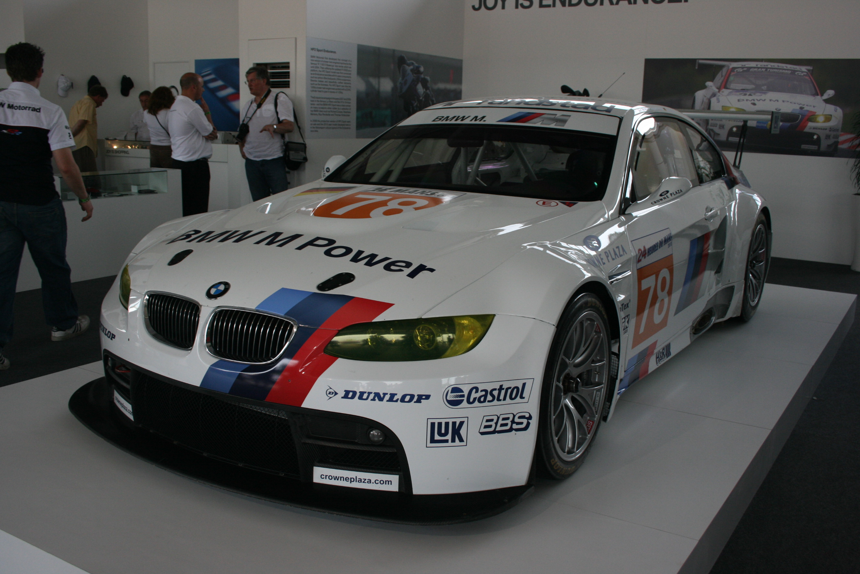 Goodwood Festival of Speed 2010: BMW M3 GT2 (BMW Motorsport)